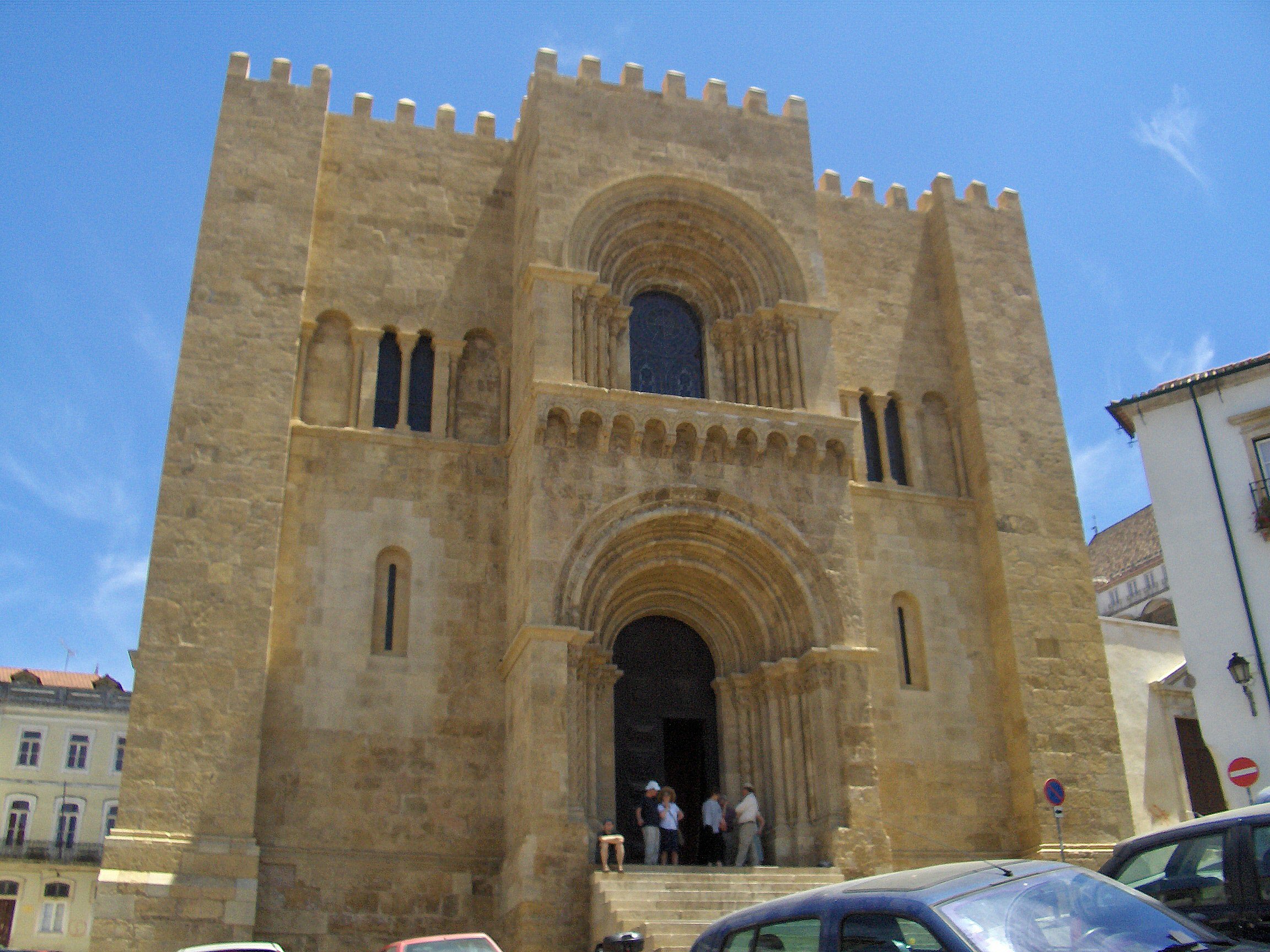 Front of the Sé Velha of Coimbra